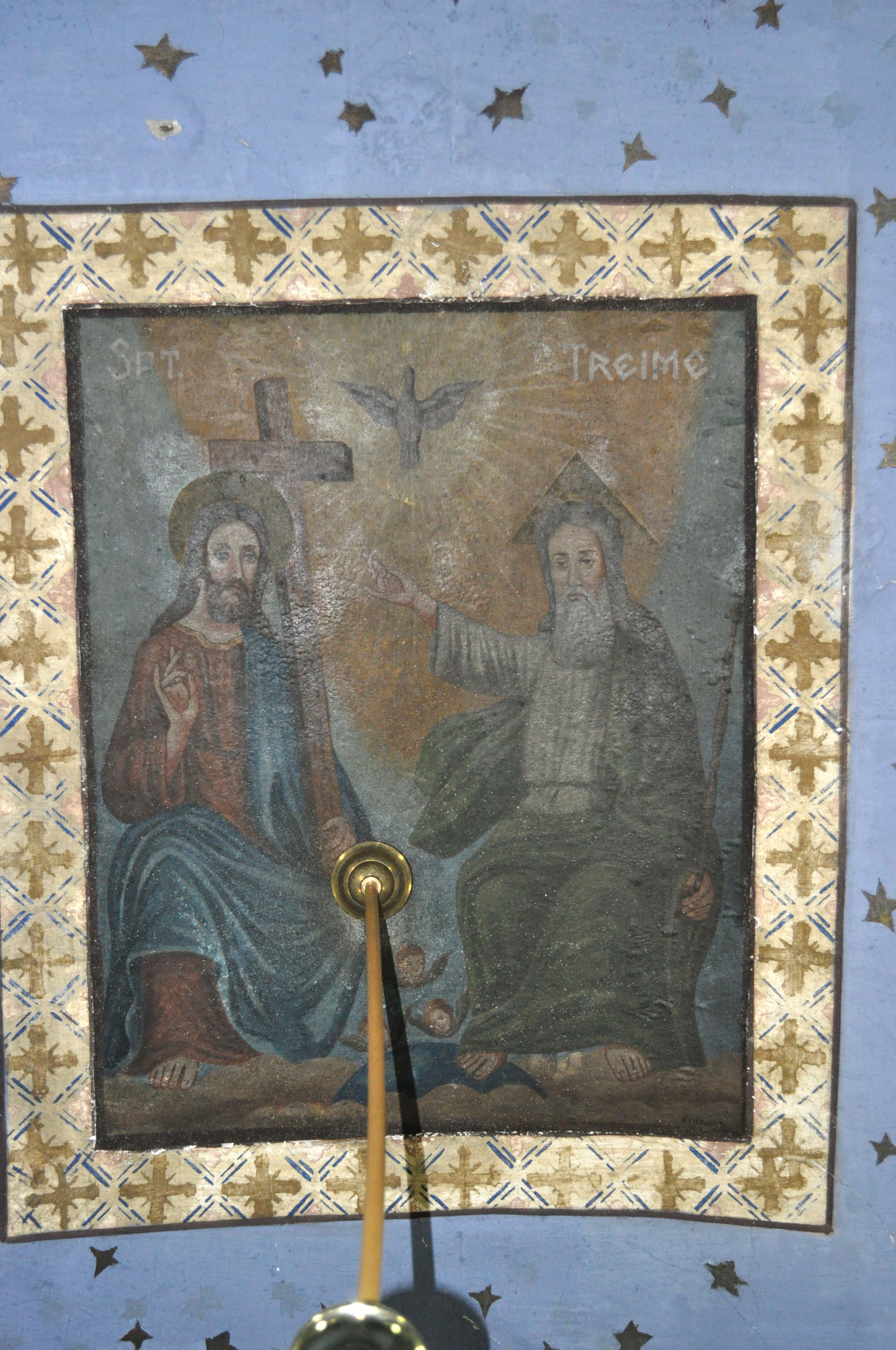 The wooden church in Stoboru, Sălaj county, Romania